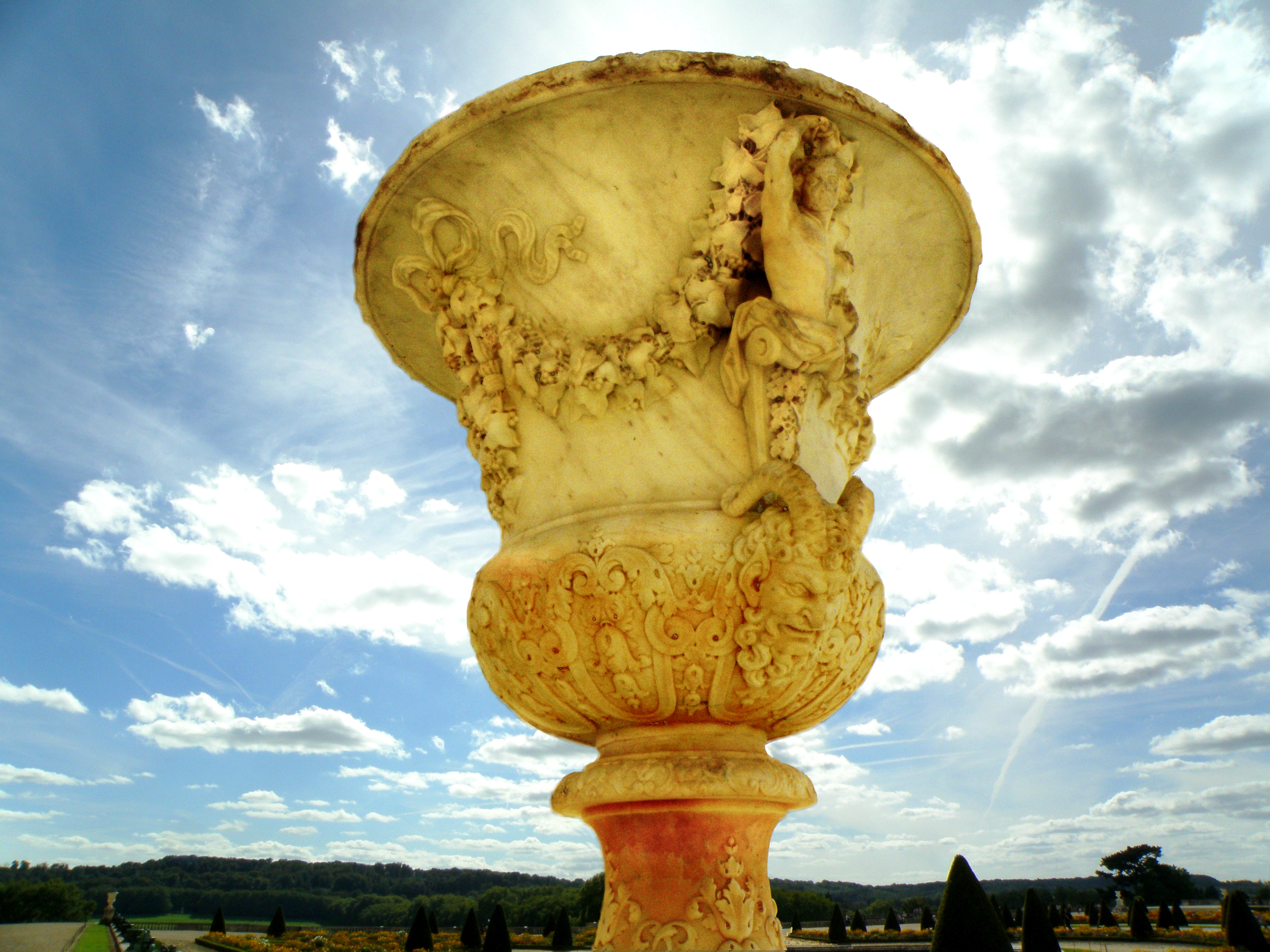 Vase of the Versailles's gardens on the background of the park.